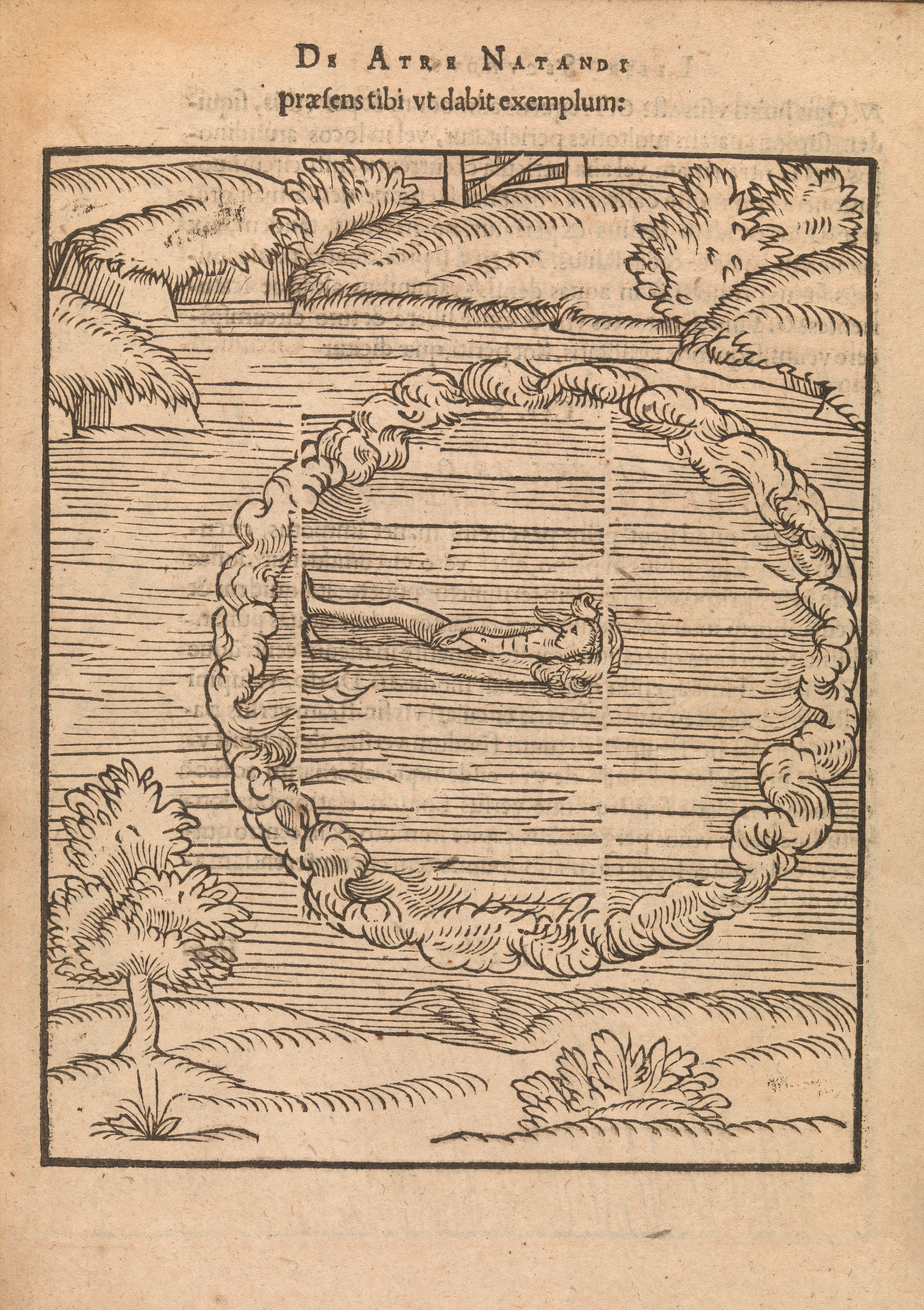 De arte natandi libri duo, quorum prior regulas ipsius artis, posterior vero praxin demonstrationemque continet. Swimming. Rare Books Keywords: Swimming